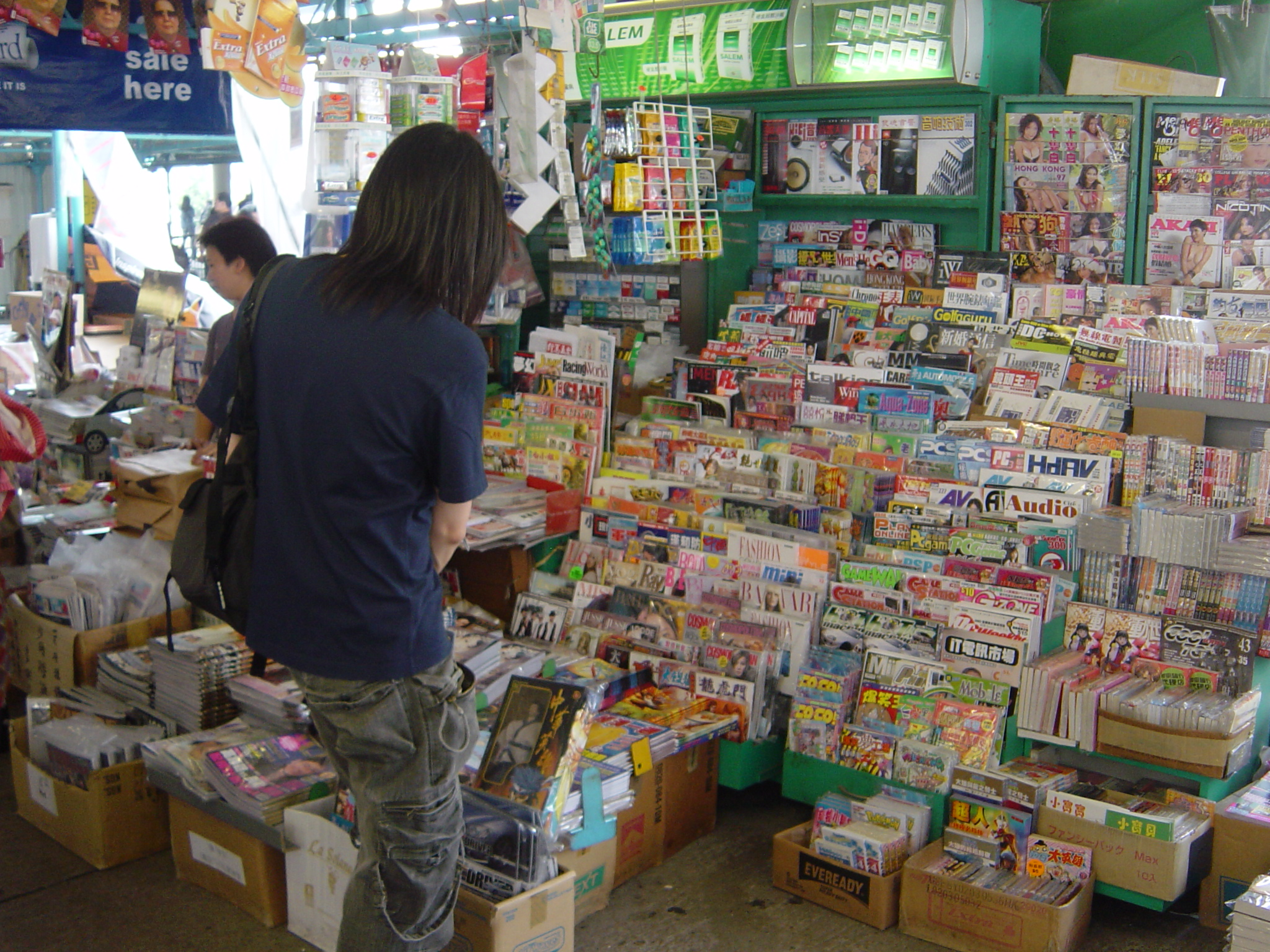 香港第三代中環天星碼頭－－碼頭廣場的雜誌攤。A newspaper vendor, captured at last day of 3rd Central Star Ferry Pier, Hong Kong.